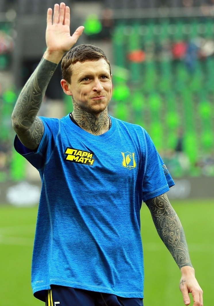 Pavel Mamayev with FC Rostov before a friendly game against FC Krasnodar.